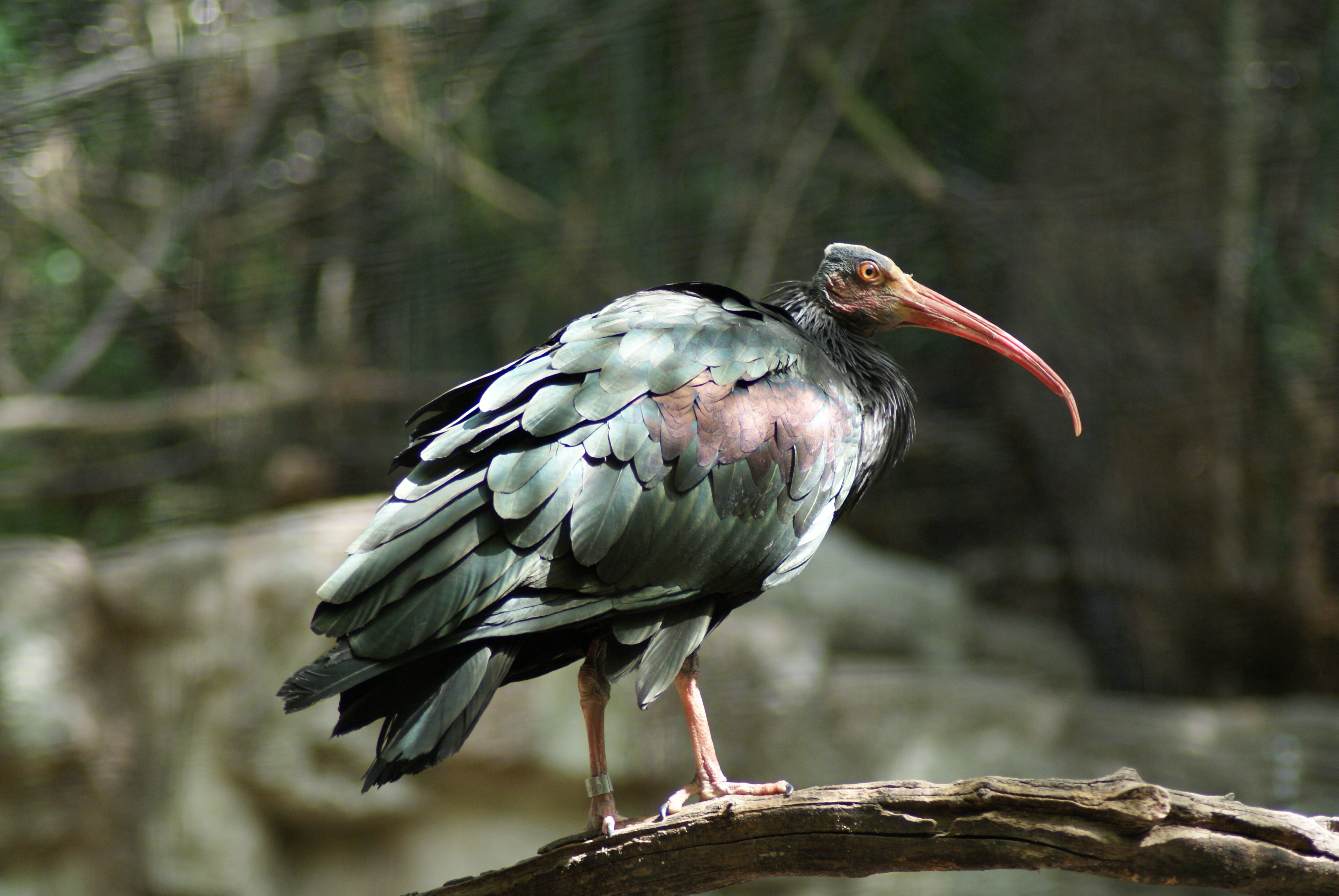 A Northern Bald Ibis (also known as the Hermit Ibis and Waldrapp Ibis) at Bronx Zoo, New York City, USA.